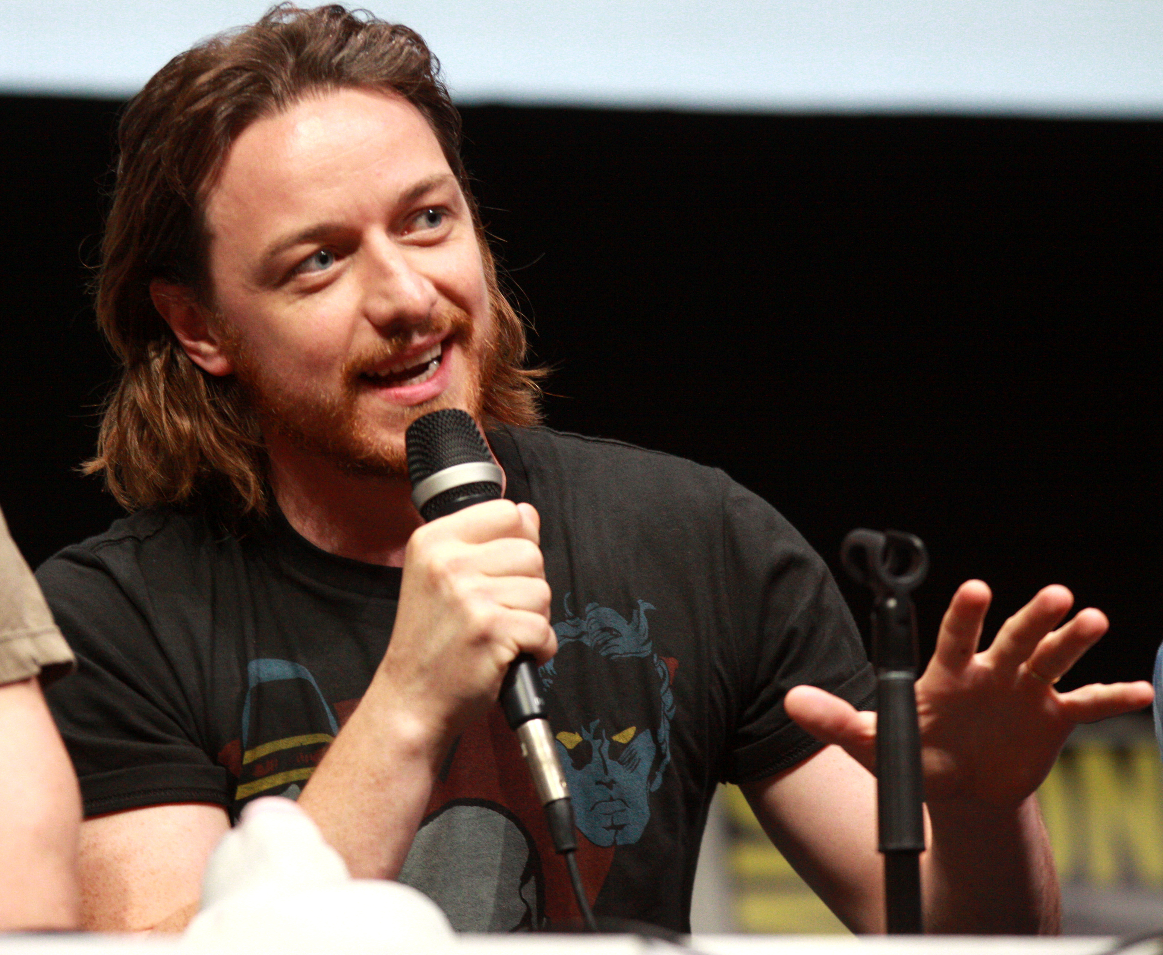 James McAvoy at the 2013 San Diego Comic Con International in San Diego, California.